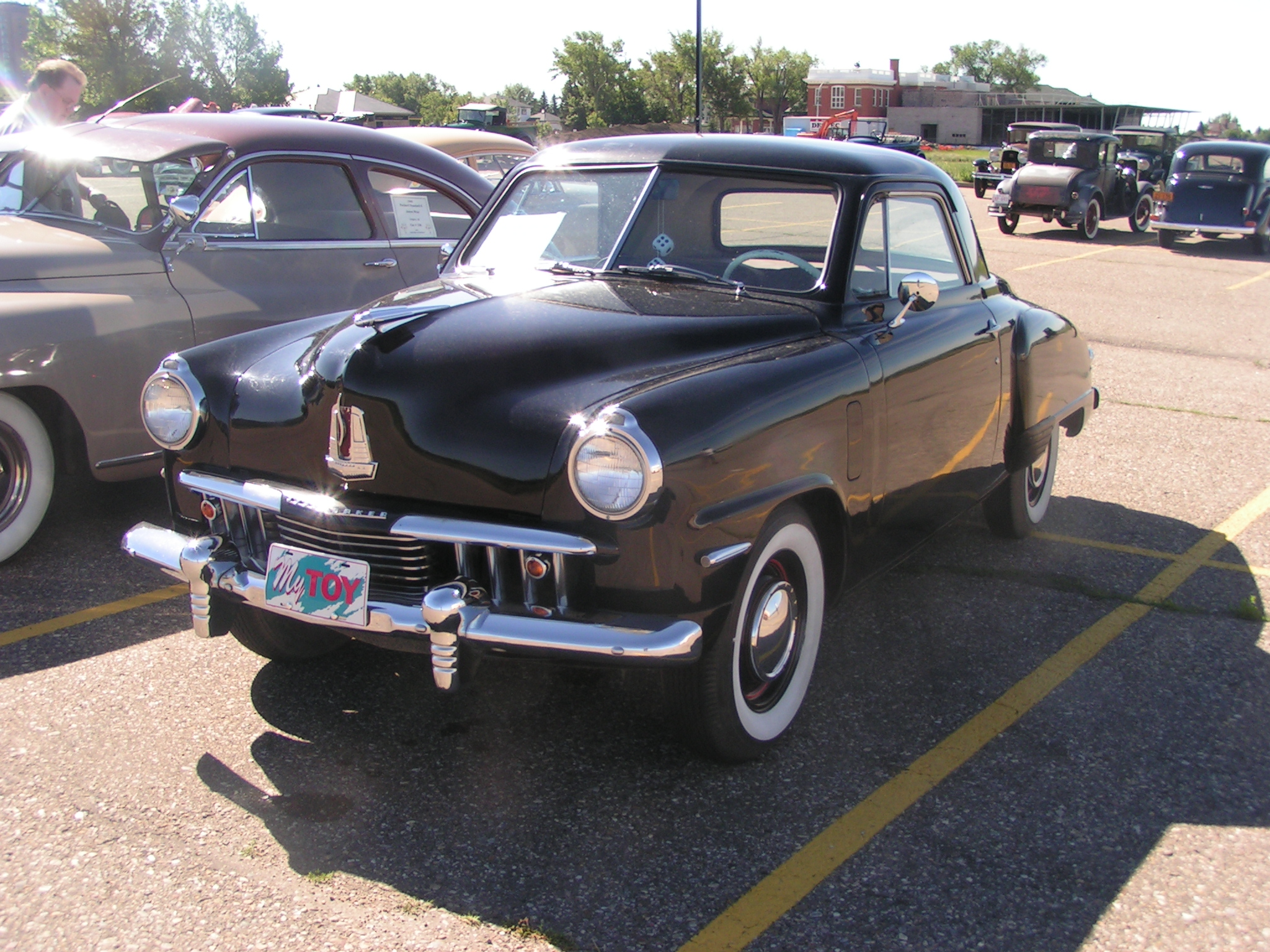 1947 Studebaker Champion - An older picture from the Lethbridge Vintage Show in 2005